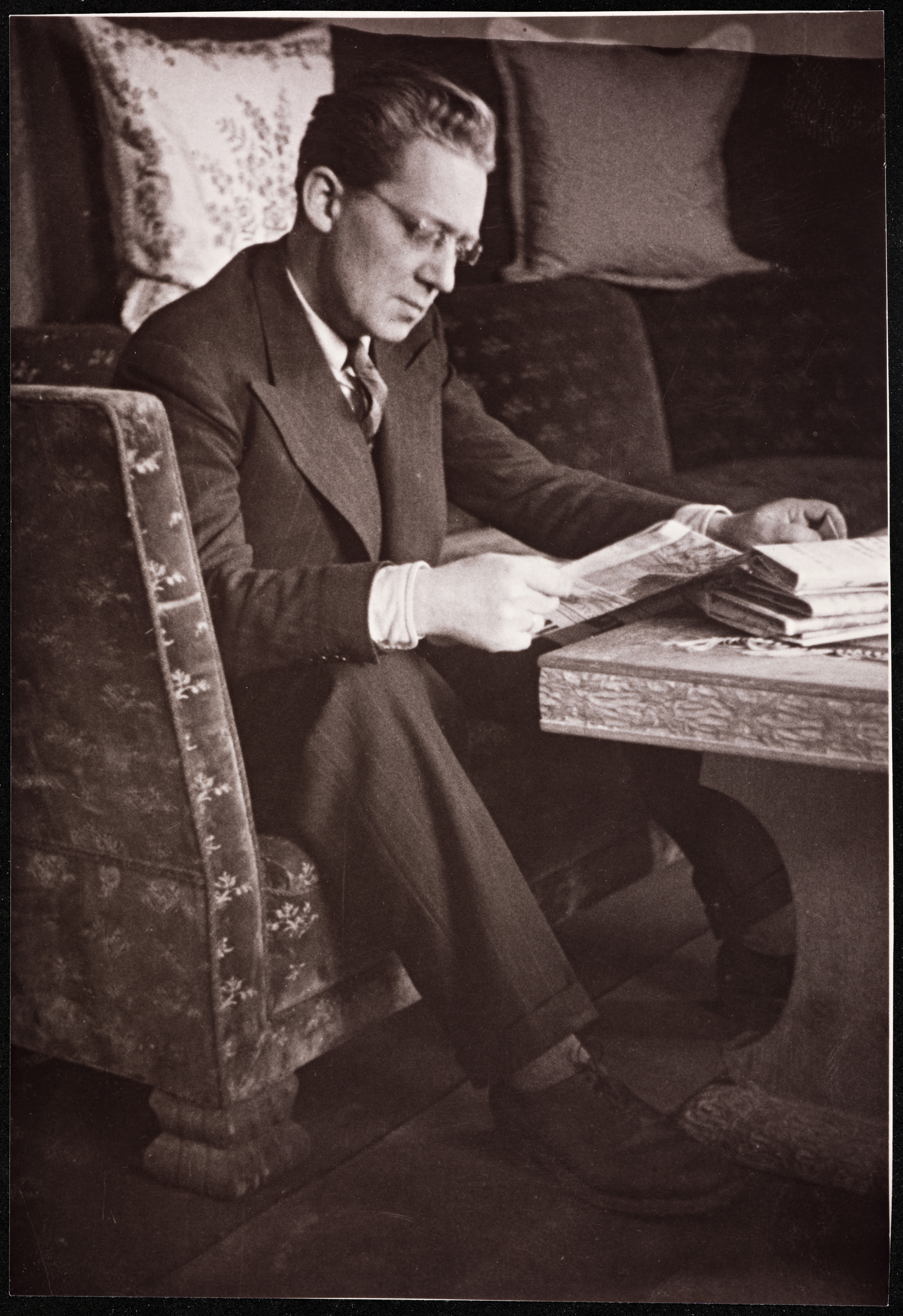 Trygve Gulbranssen at Hobøl.